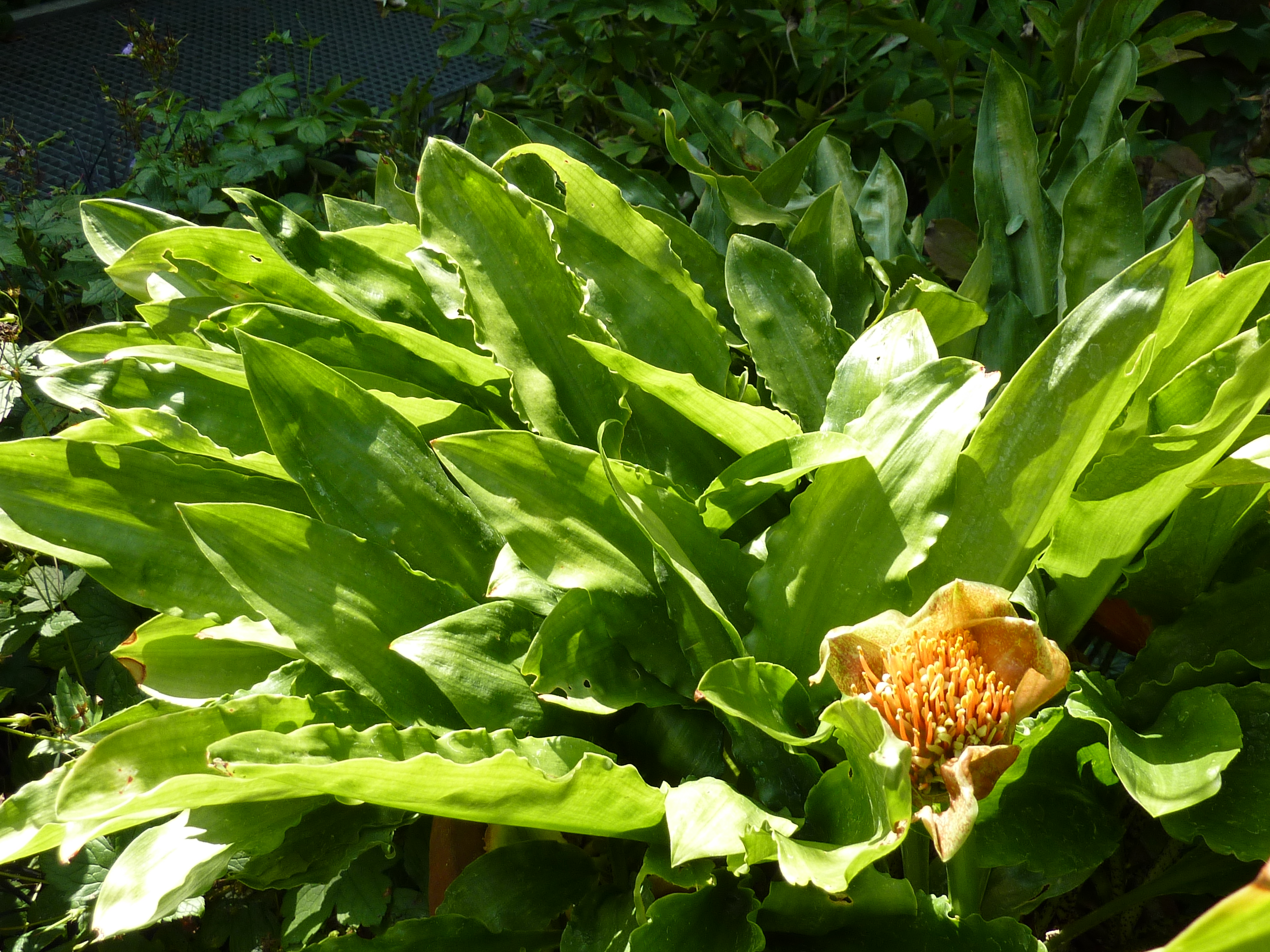 Scadoxus membranaceus at the Botanical Garden of the University of Basel.